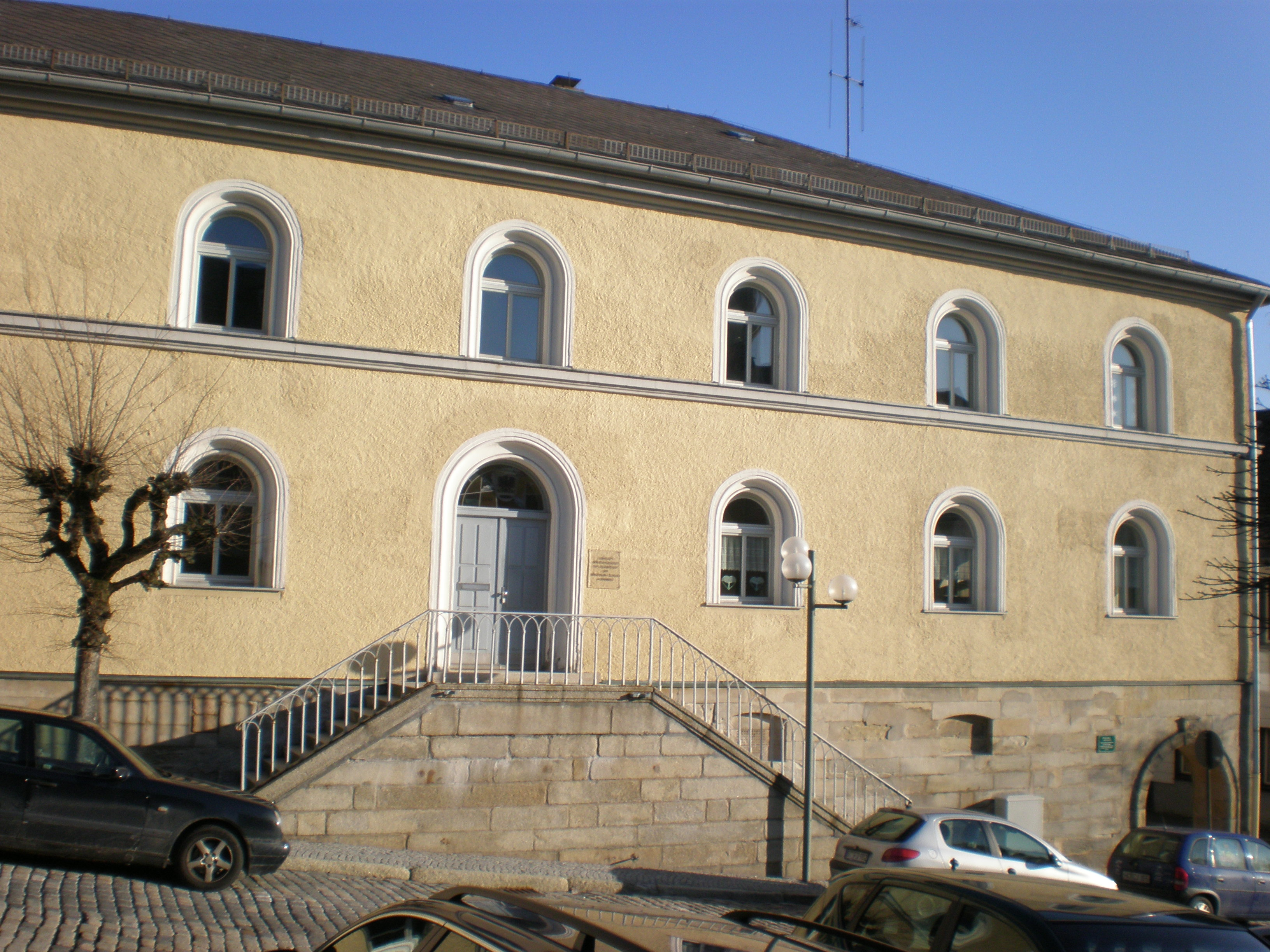 The former district administration office in Münchberg.